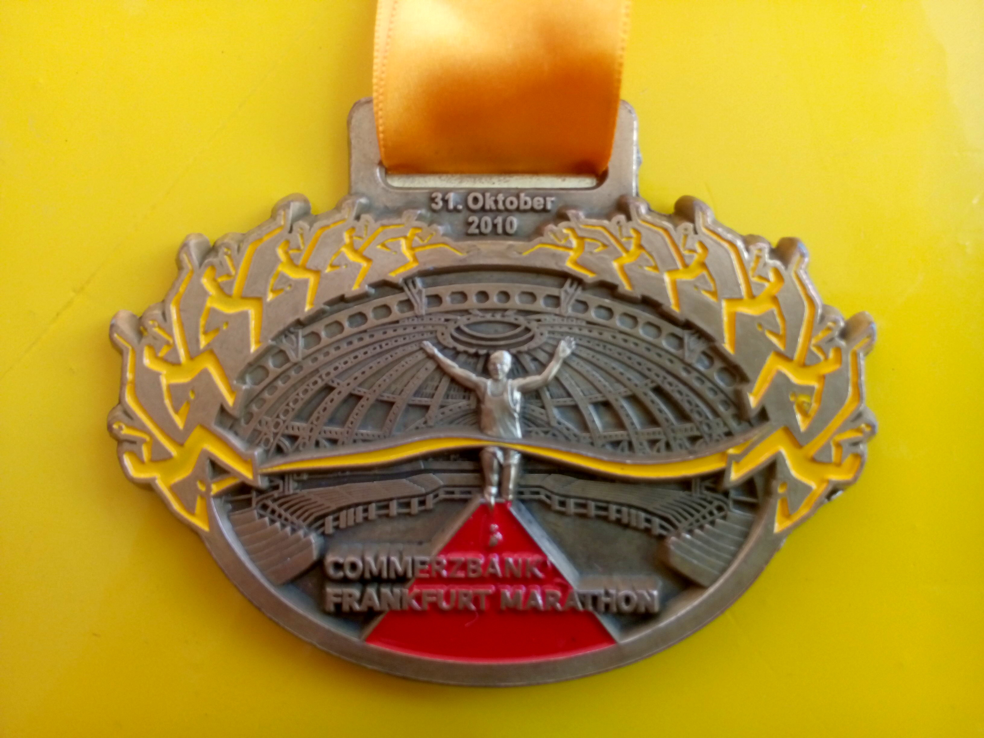 Finisher-Medaille des Frankfurt-Marathon 2010.